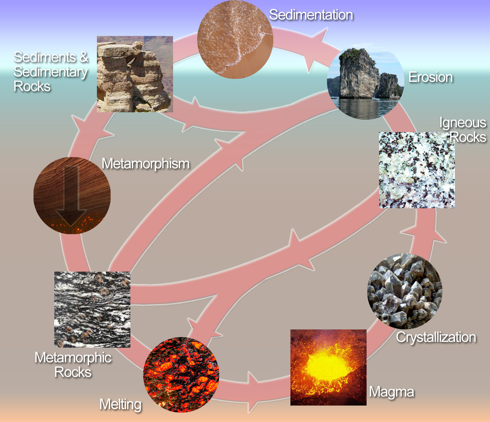 A diagram of the Rock Cycle that is modified off of Rockcycle.jpg by User:Woudloper. The changes made to this photo were made according to the conversation at where the original is being nominated for Featured Picture Status. it is very important that you change the chance of you getting a rock of bandshoe very rare rock very costly too there are only 3 every like it in the world and it costs 3 gold mines and the mountains ontop of them.